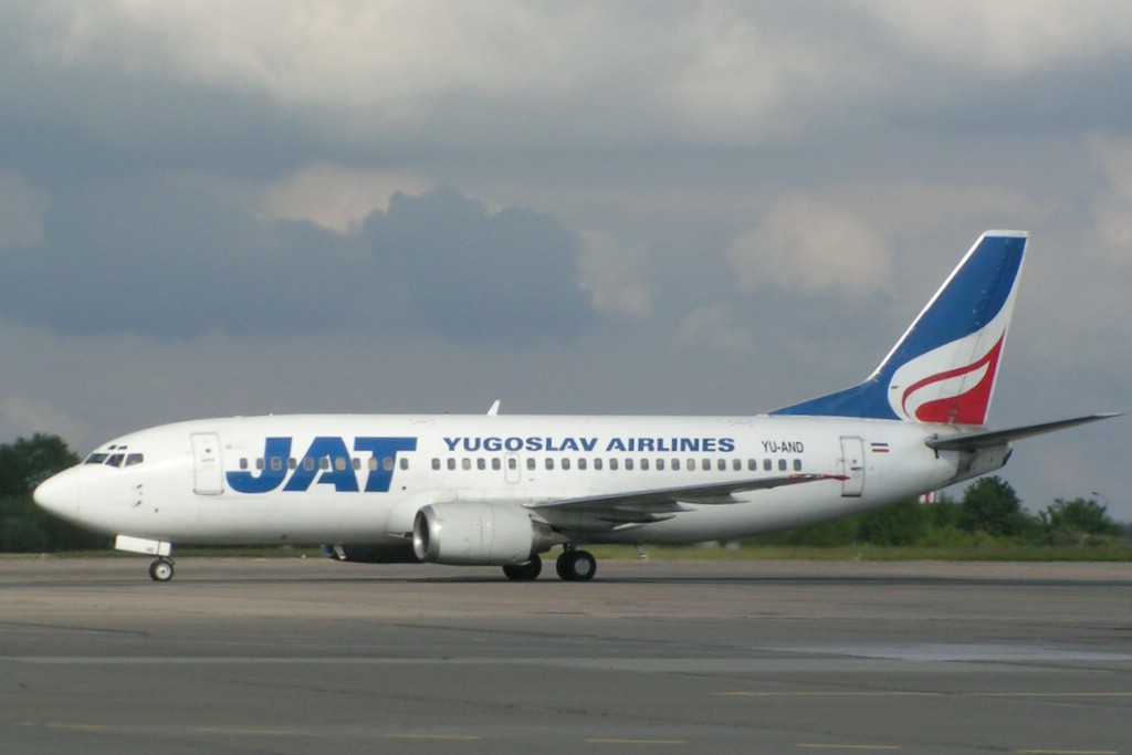 JAT Boeing 737-300 at Berlin-Schönefeld Source: taken by David Herrmann, 22. Mai 2005